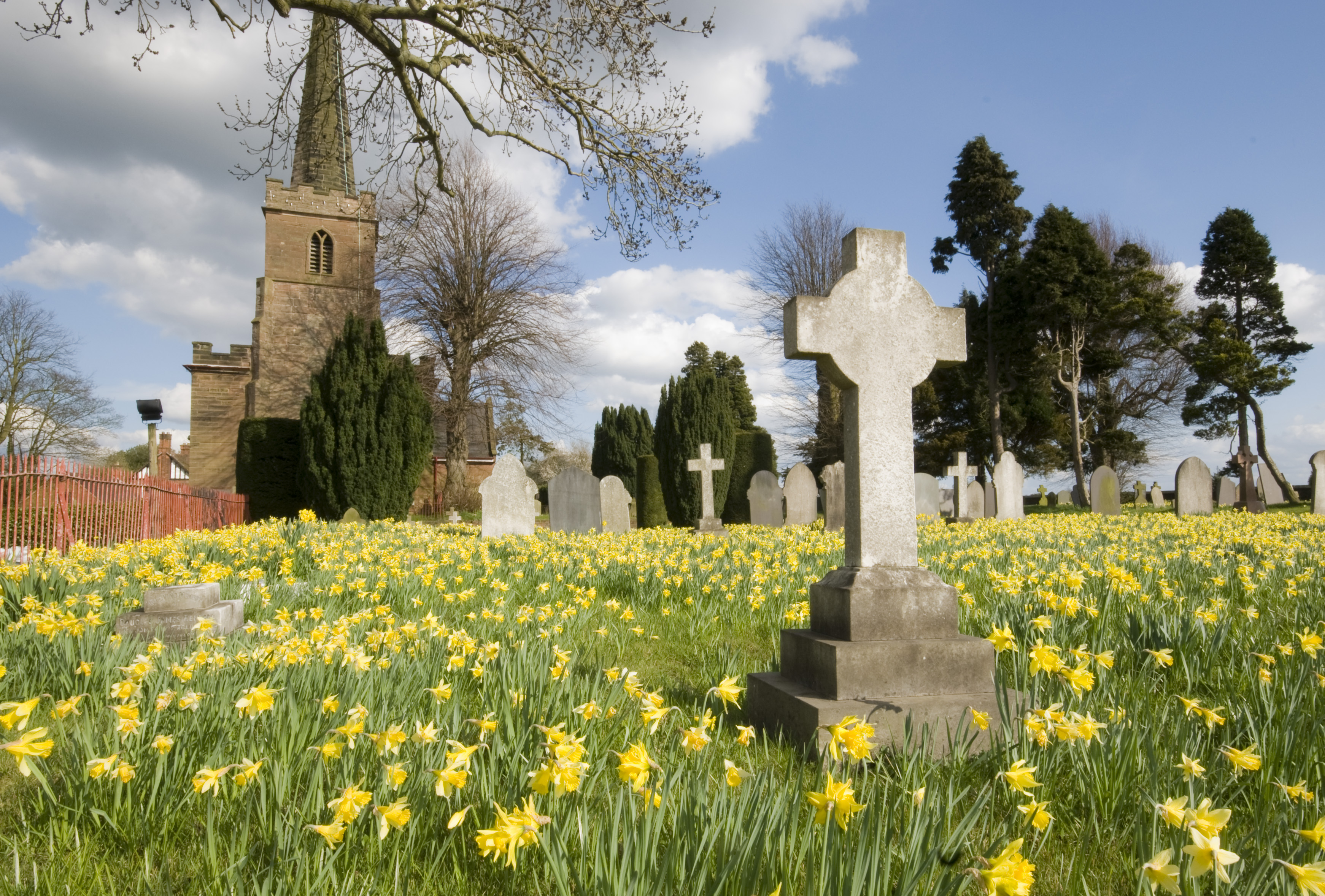 St Giles Churchyard in Whittington in the spring